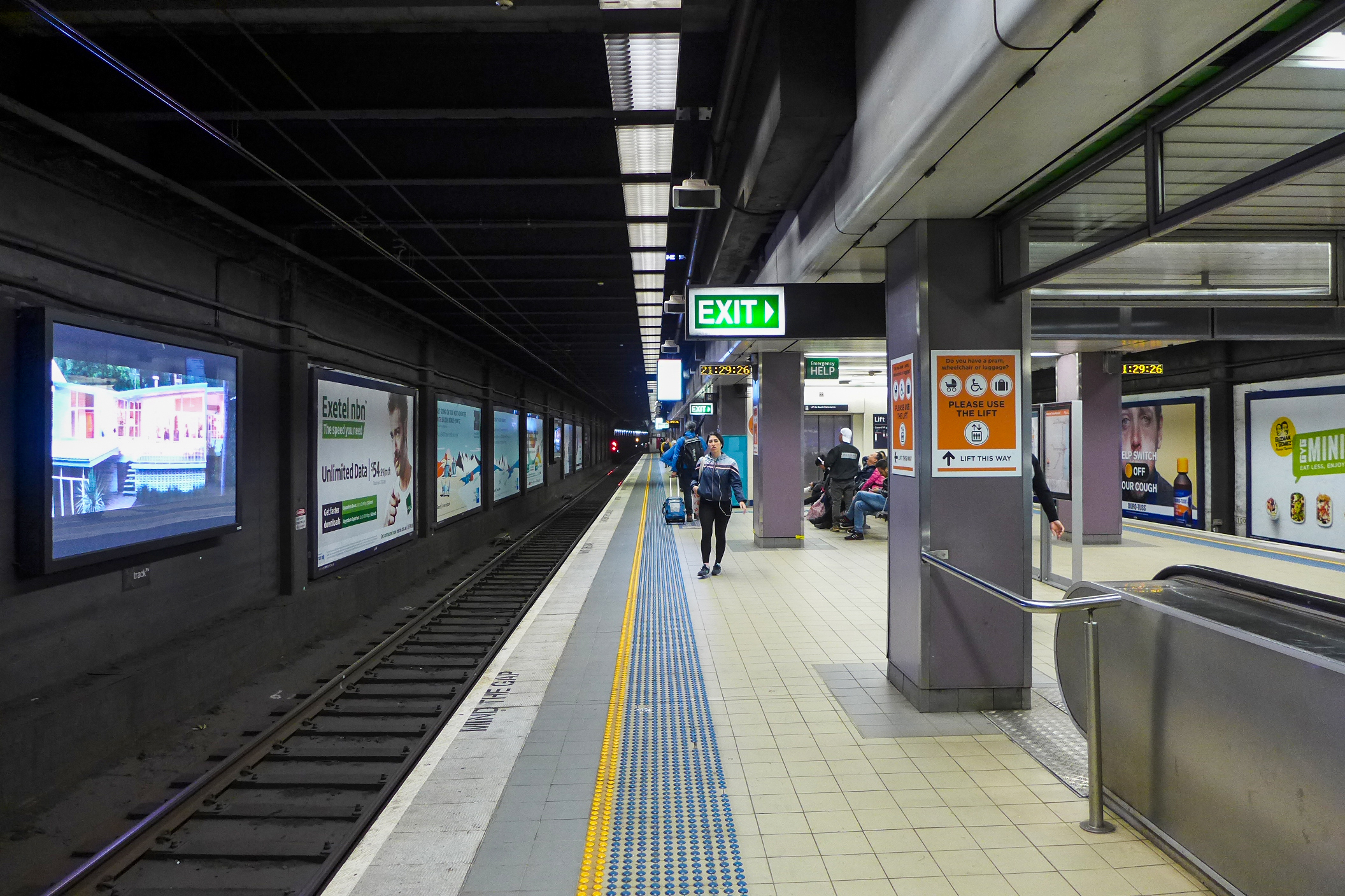 Central railway station Sydney Basement Platform